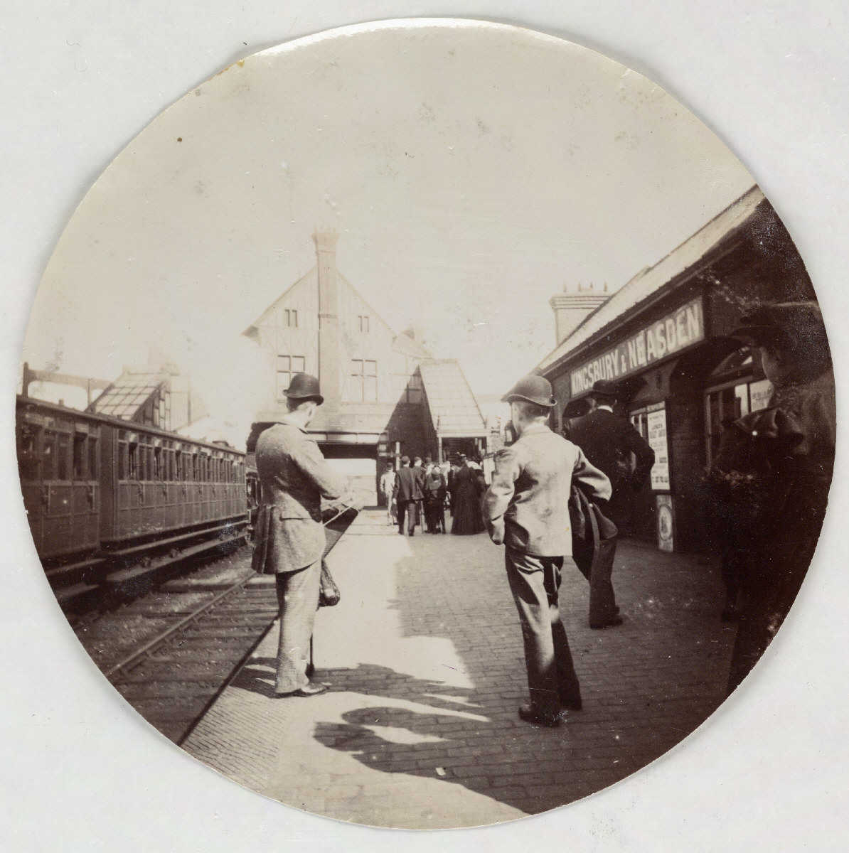 Kingsbury and Neasden station, about 1890 Collection of National Media Museum/Kodak Museum We're happy for you to share this digital image within the spirit of The Commons. Certain restrictions on high quality reproductions of the original physical version of apply though; if you're unsure please visit the National Media Museum website. For obtaining reproductions of selected images please go to the Science and Society Picture Library.